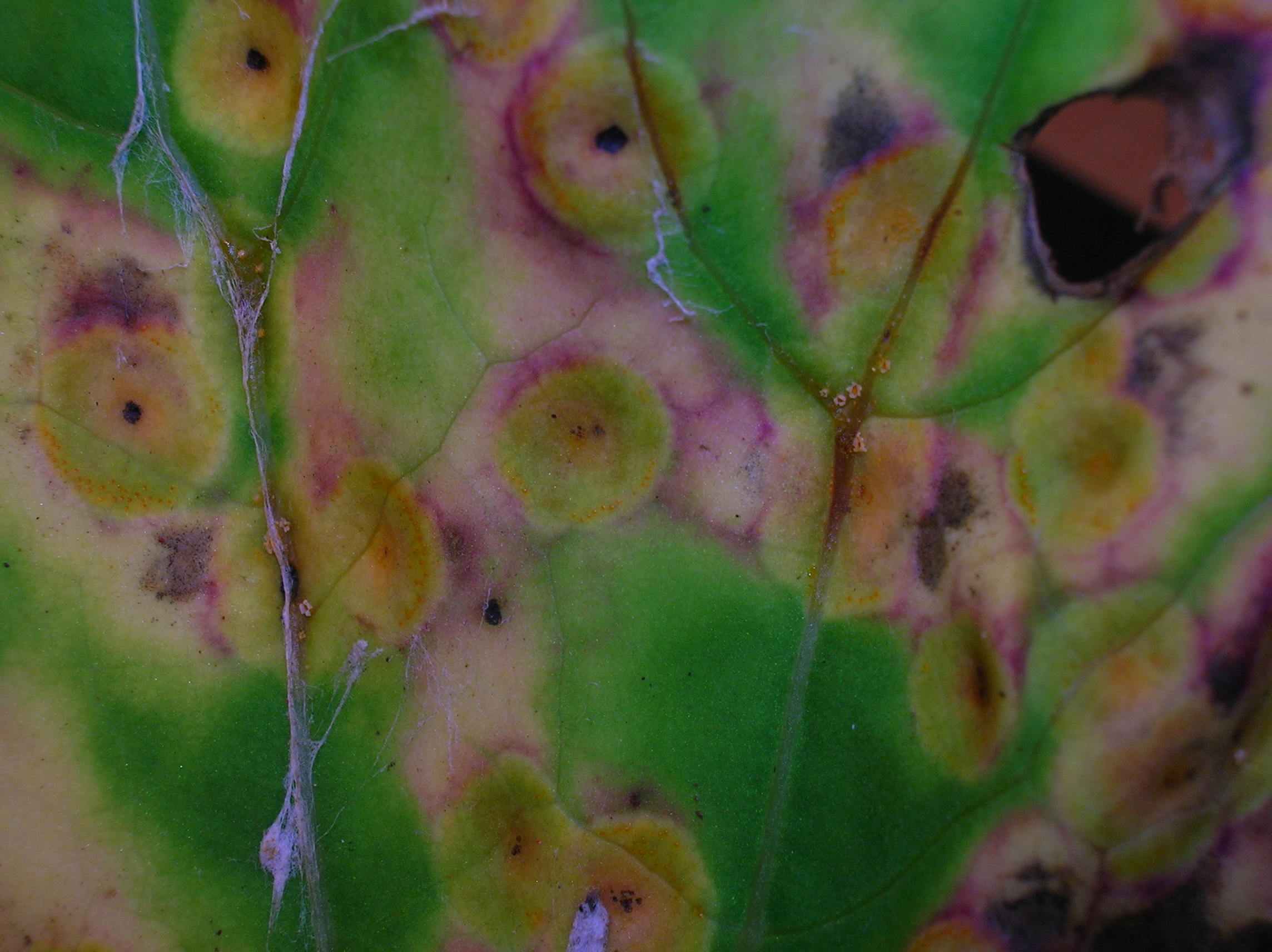 Detail of Puccinia poarum on upper epidermis of Coltsfoot. Lynn Glen, Dalry, Scotland.